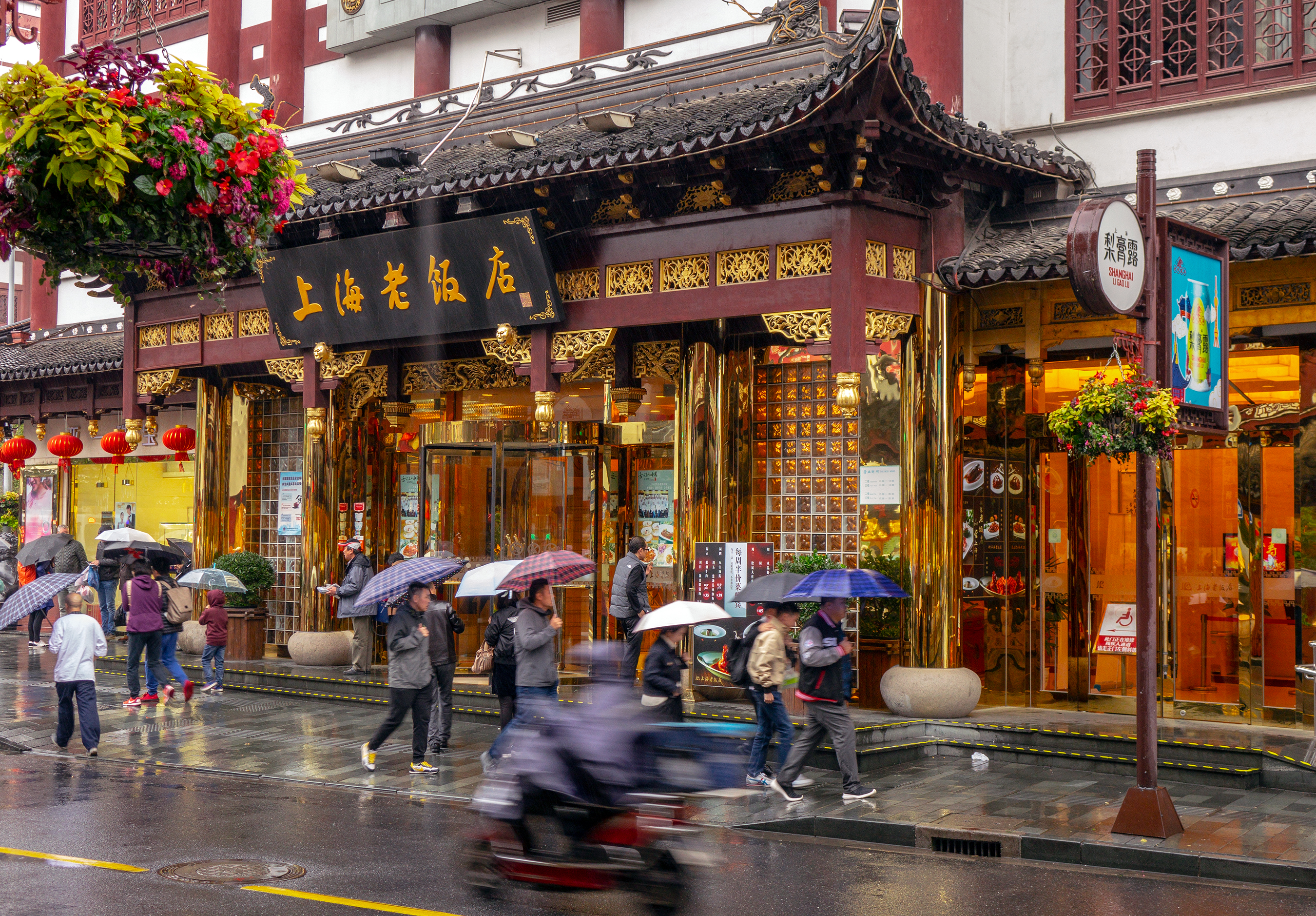 Although the Old City has not been torn down, it has really been fixed up since 2005; it now retains an old style but everything is classy and shiny